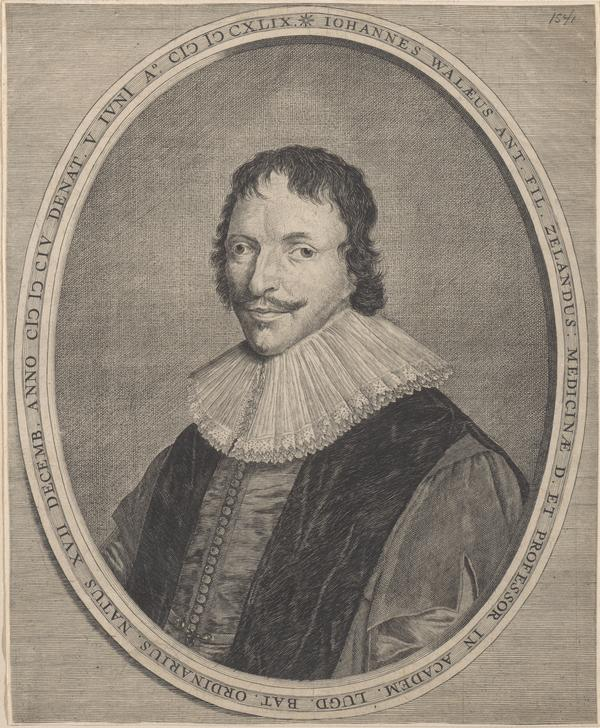 Portrait of Jan de Wale / Johannes Walaeus (ca.1604-1649) by J. Hackius & Salomon Savery. Walaeus was professor of medicine at Leiden University. Collection Bodel Nijenhuis BN 1541.